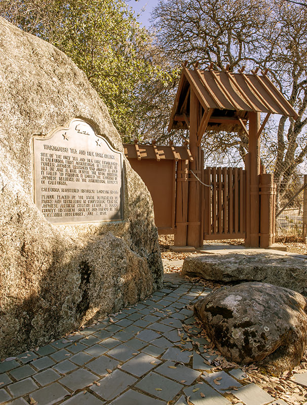 Wakamatsu Tea and Silk Colony Farm, 941 Cold Springs Rd. Gold Hill